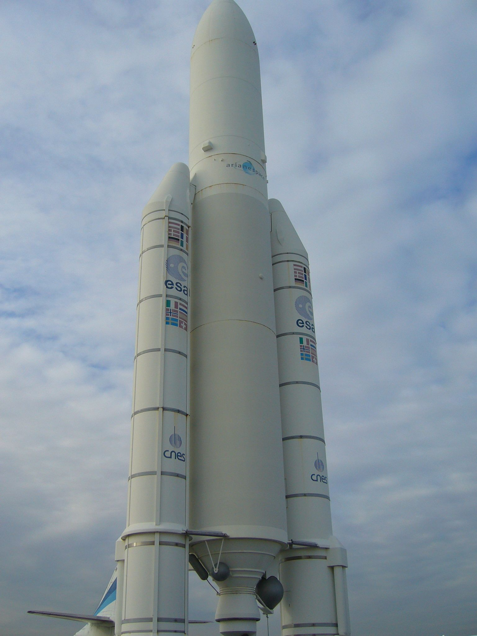 Ariane 5 at Musee de l'Air et de l'Espace, Paris, France